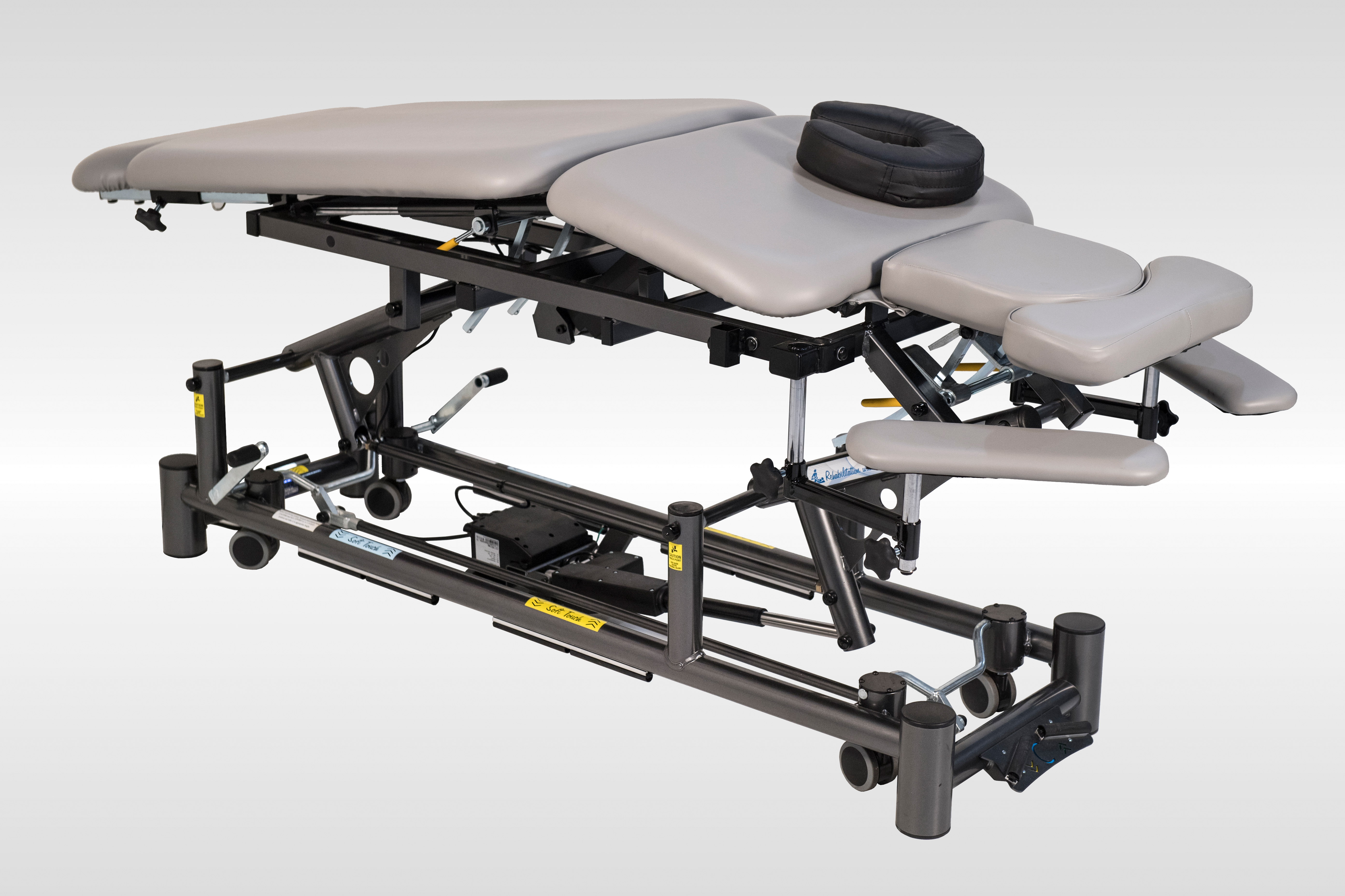 Cardon Skye Massage with powered center secton, variable position armrests and adjustable head section.